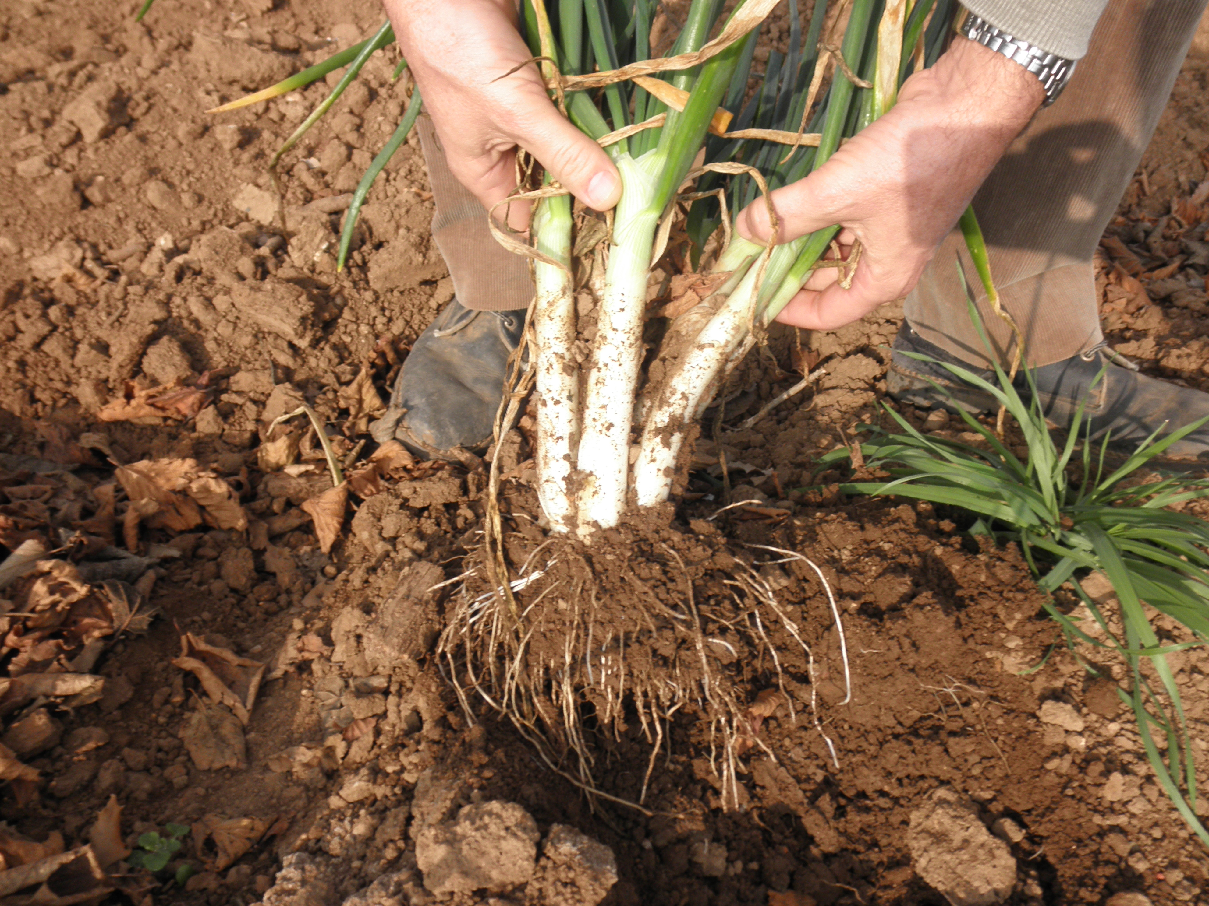 Calçot freshly harvested.